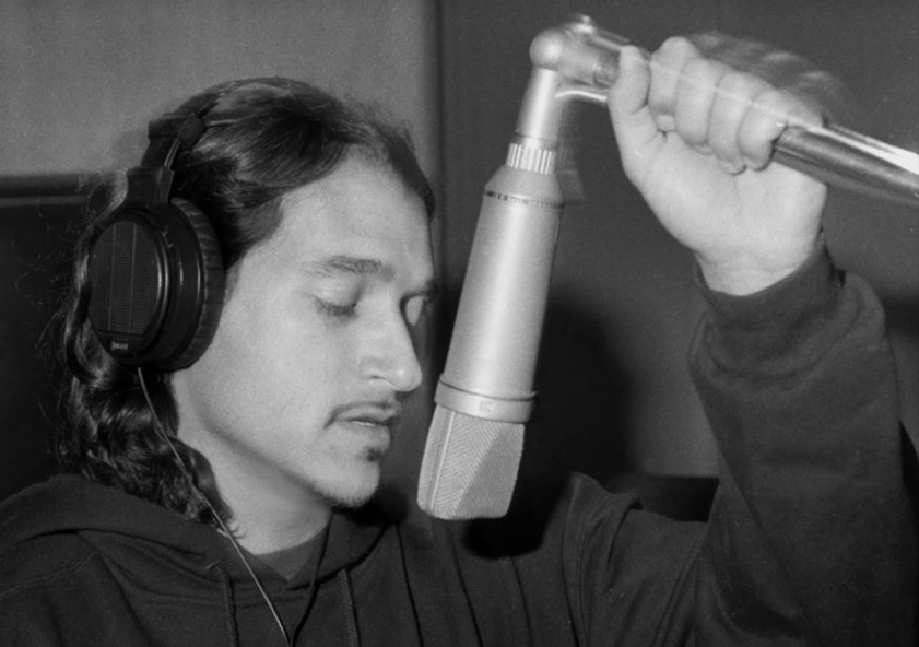 Songwriter-vocalist, Ithaka Darin Pappas, recording the demo for his drum and bass, surf-guitar, adventure-story song "Seabra Is Mad" in Lisbon, Portugal 1996. The song charted at #17th in Portugal in November of 1997. Ithaka was nominated for four Blitz Awards (the Portuguese Grammy) that year; Best Song "Seabra Is Mad", Best Video "Seabra Is Mad", Best Album "Stellafly" and Best Male Vocalist. In 1992, Ithaka wrote and recorded "So Get Up" a song which has via remixes of his early a cappella has charted by several different artists from different musical genres. Ithaka is largely uncredited with this work even though, with more than a thousand different versions, it has become the most remixed vocal a cappella in musical history.